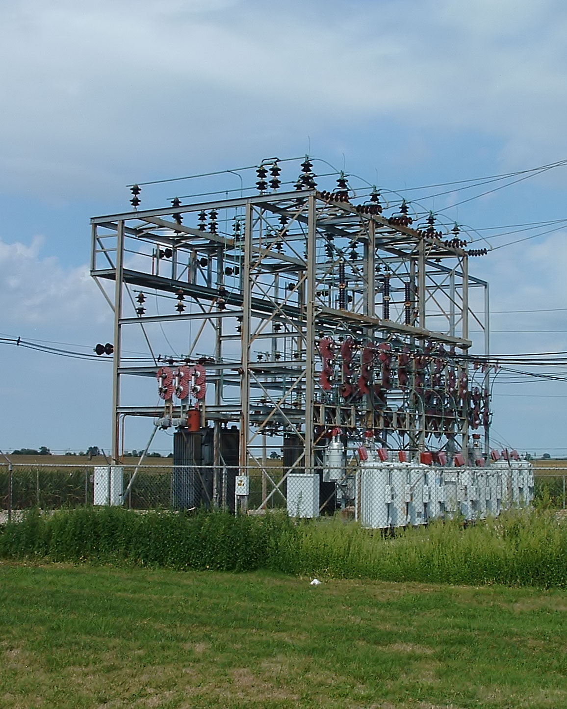 A typical North American electrical substation. Picture taken August 21, 2005 in Galesburg, Illinois.